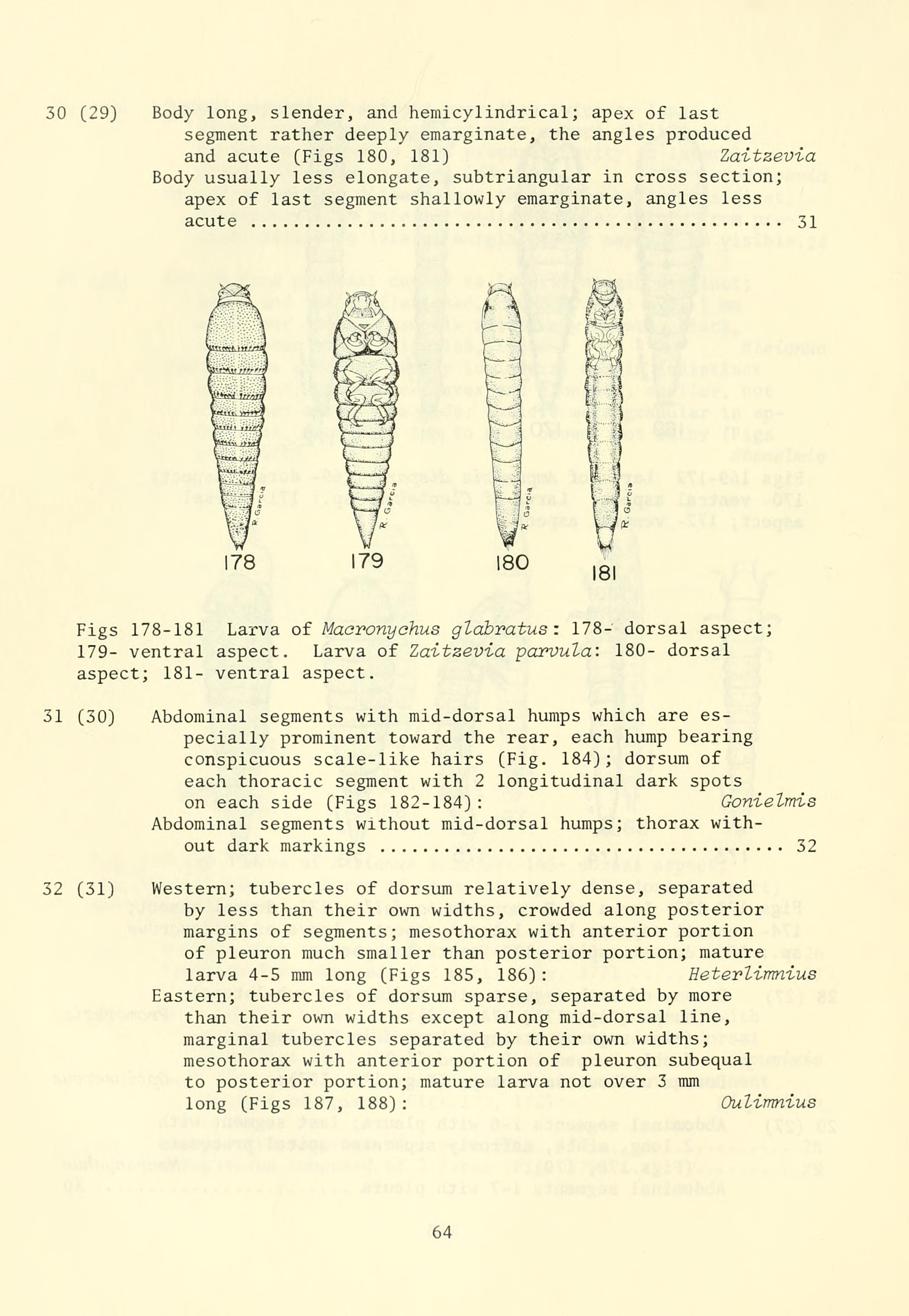 Aquatic dryopoid beetles (Coleoptera) of the United States, by Harley P. Brown.